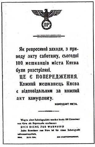 Public notice in Kiev